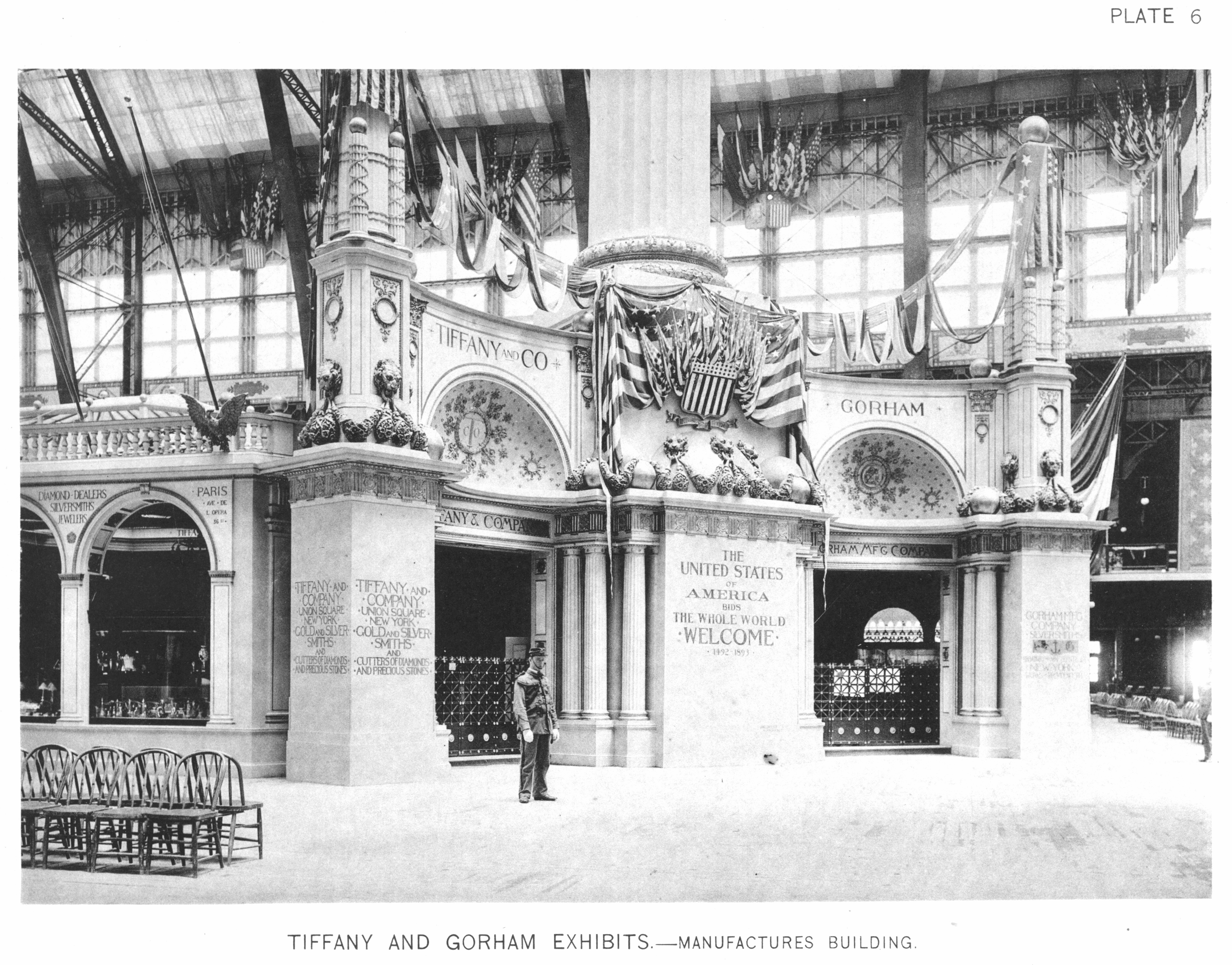 Official Views Of The World's Columbian Exposition: Tiffany And Gorham Exhibits--Manufactures Building